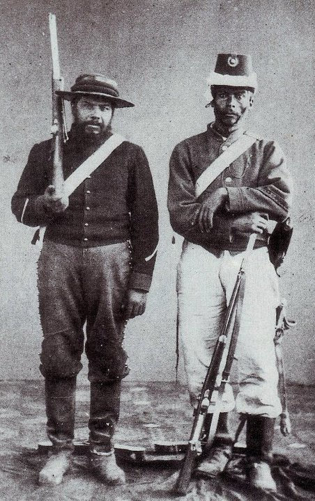 A Gendarme and a line cavalryman of the Mexican Imperial army.